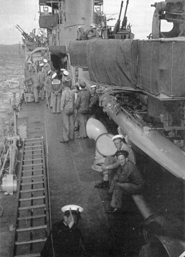 Port side of swedish destroyer "HMS Puke", underway in anti-aircraft readiness.